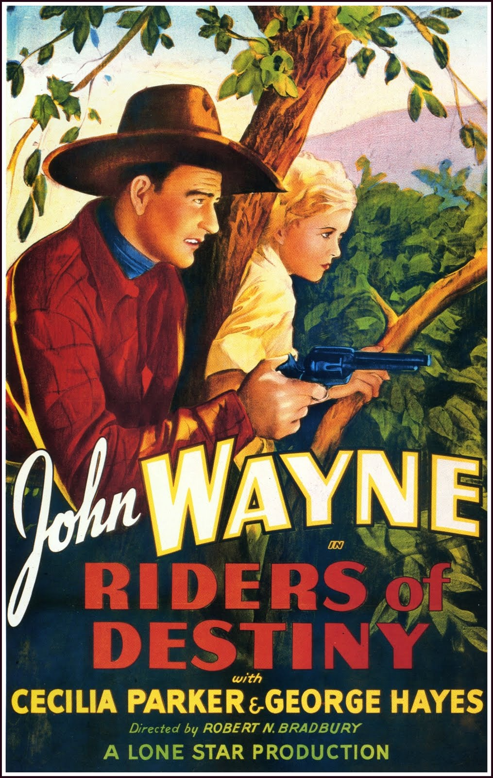 Poster for the 1933 film Riders of Destiny. A search for renewals was done in motion pictures for the years 1960 and 1961. There were no listings for the title Riders of Destiny. There's no evidence that copyright continues to be claimed on this material.